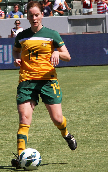 Australian WNT midfielder Collette McCallum playing against the USWNT in September 2012 during an international friendly in Carson, LA